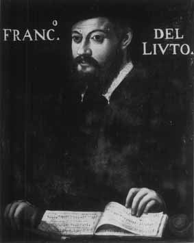 Francesco Canova da Milano